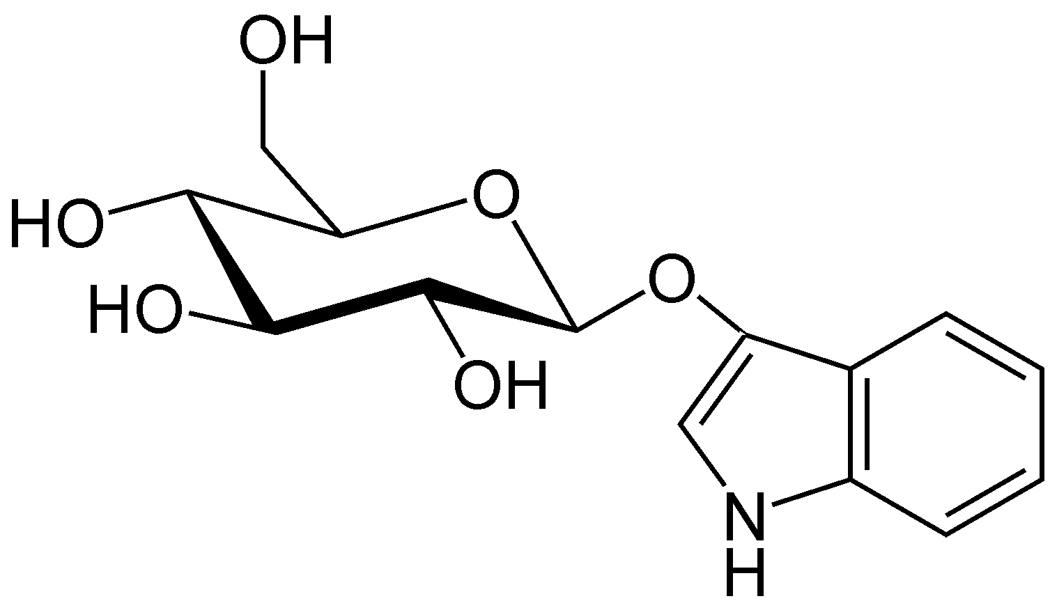 Description: Chemical structure of indican Author, date of creation: selfmade by Shaddack, 25 October 2005 Source: self-made Copyright: Public Domain (PD) Comments: b/w PNG; ChemWindow